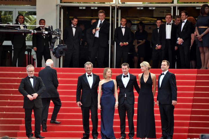 Cast and director of "The Beaver" at the Cannes film festival